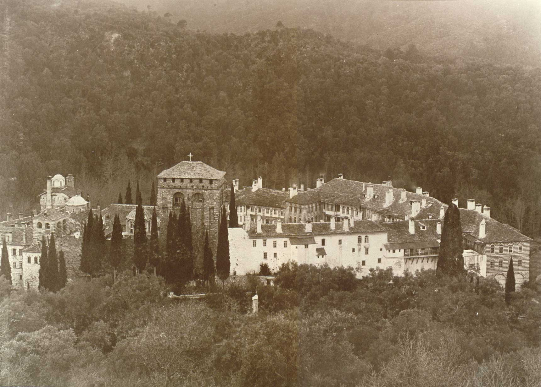 Monastery Hilandar during King Aleksandar Obrenović visit in 1896. As a gift, monastery gave him Miroslavljevo jevandjelje, that he brought to Belgrade.